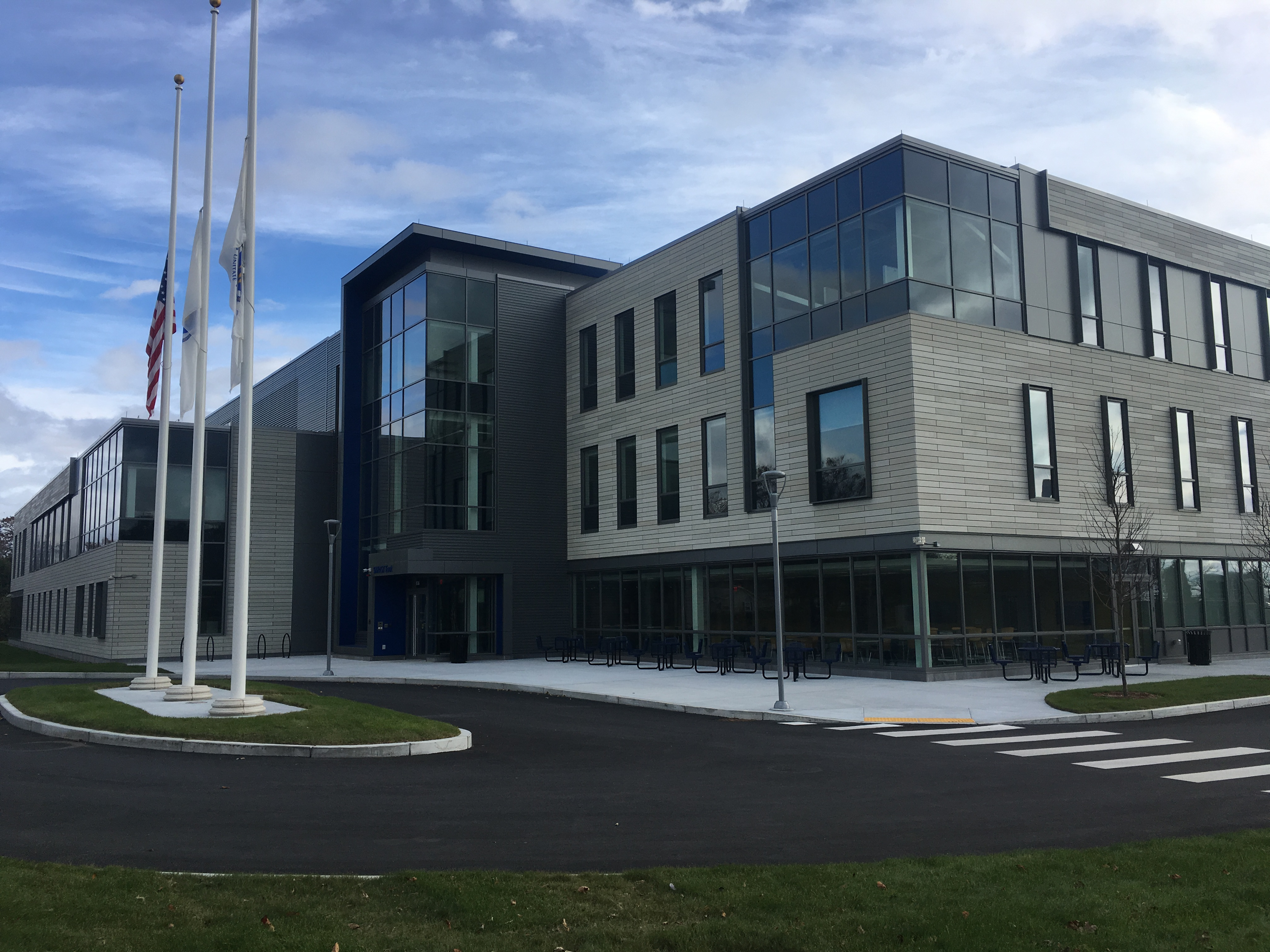 New SMAST campus facility opened in 2017